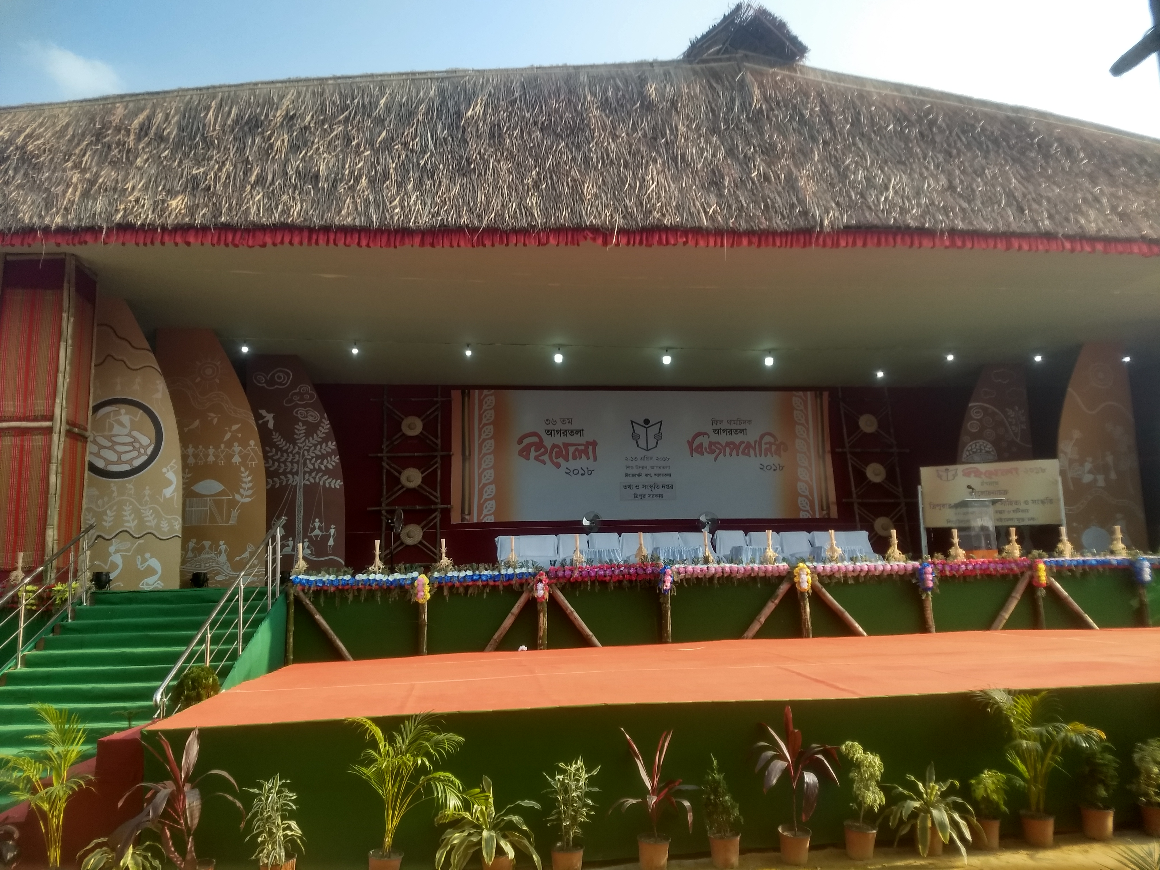 AGARTALA BOOK FAIR 2018